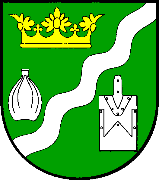 Coat of arms of the municipality Prinzenmoor in Schleswig-Holstein, Germany.